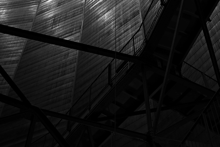 Lowkey photo of gasometer oberhausen/germany